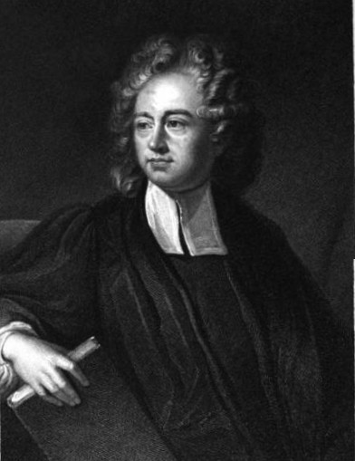 Engraving of Richard Bentley portrait